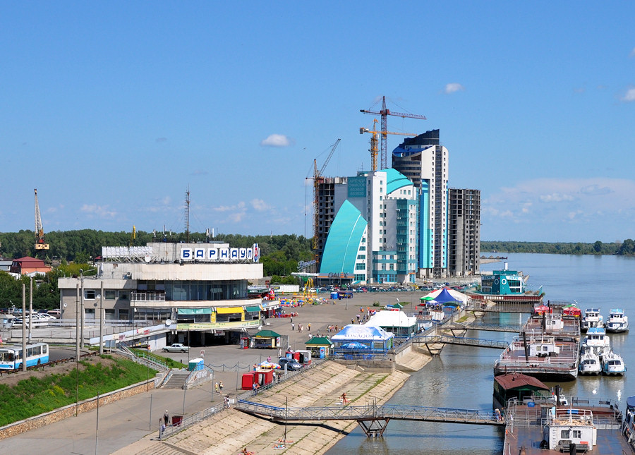 The river port of the Barnaul city (Russia), on the Ob River.